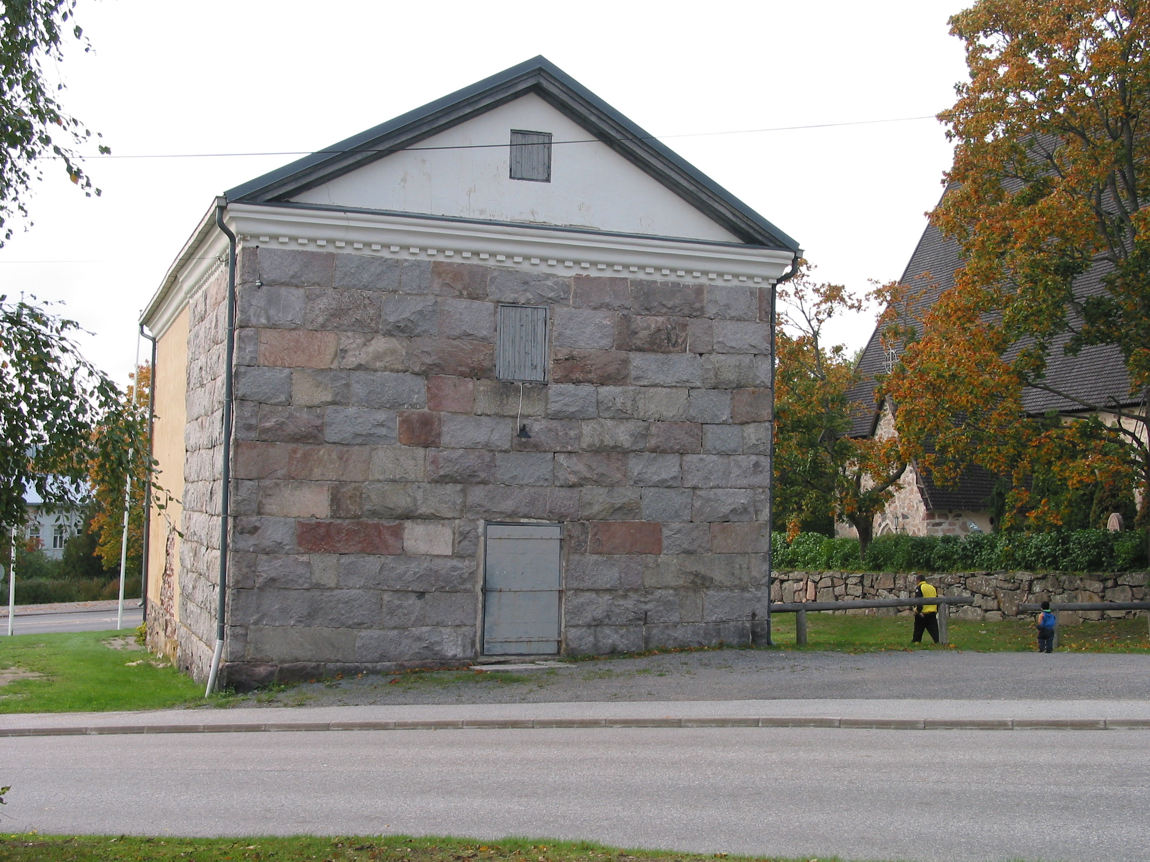 Perniö parish municipal Granary or corn crip from 1820, extension 1896